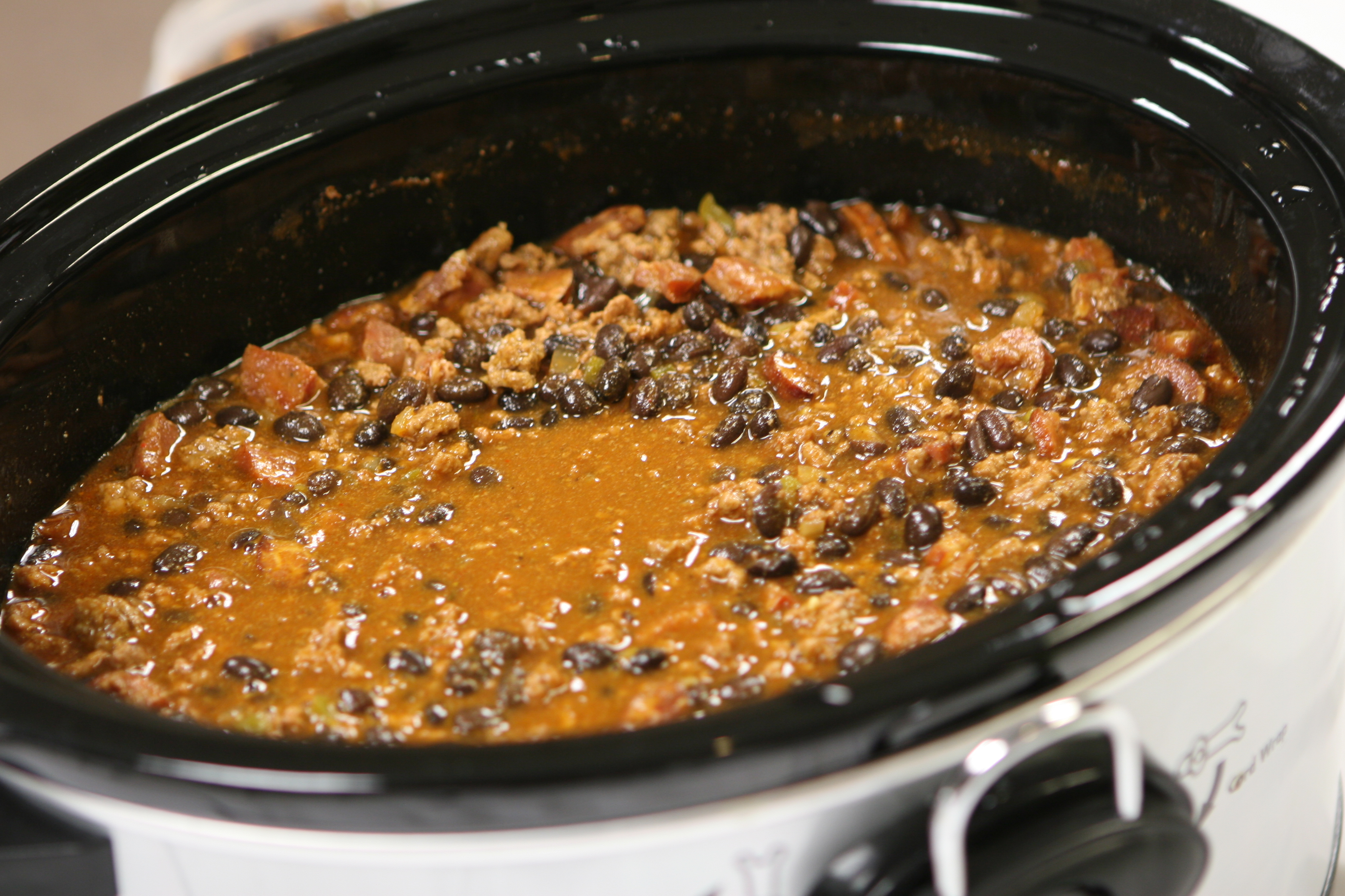 One of the chili selections slowly simmers and waits to be consumed at the 4th Marine Aircraft Wing Second Annual Chili Cook-Off, Jan. 26.